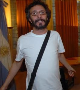 Argentine singer and composer Fito Páez during a visit to the Casa Rosada (presidential government house).